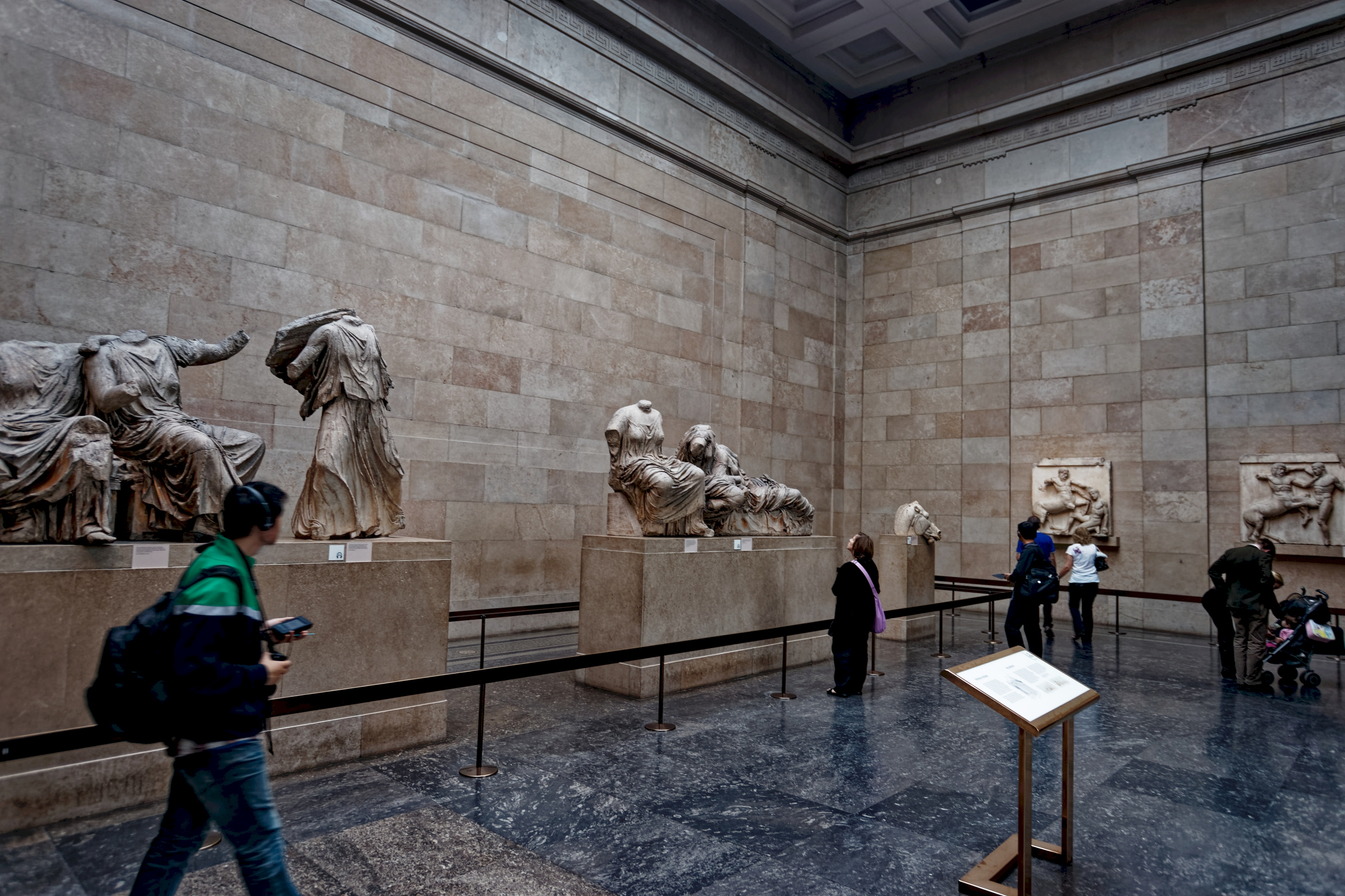 London - Great Russell Street - British Museum - Greece: Parthenon - Elgin Marbles